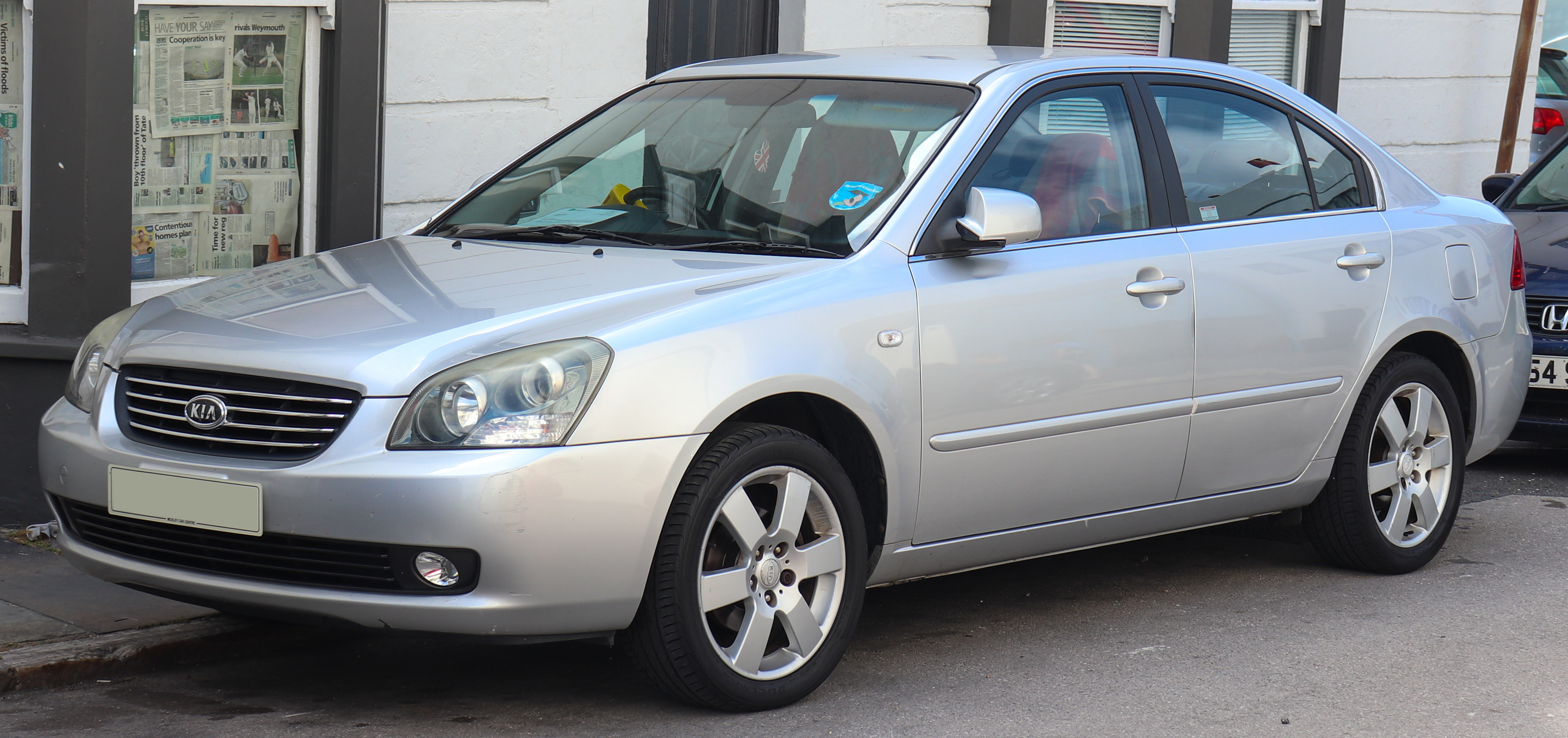 2008 Kia Magentis LS 2.0 Taken in Weymouth